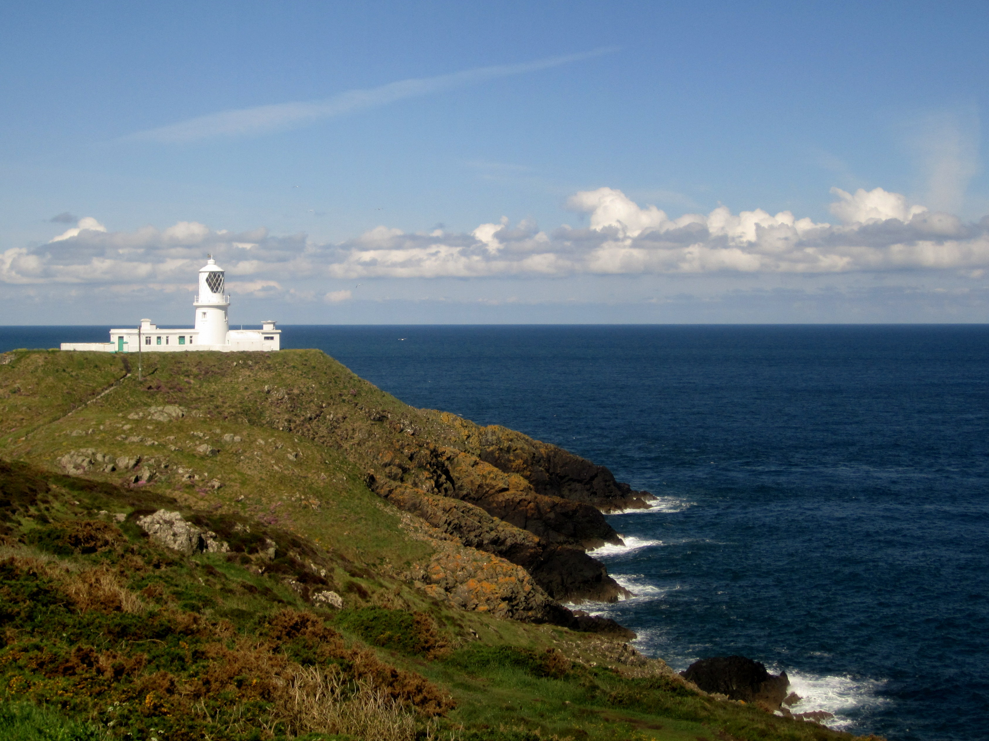 Strumble Head Lighthouse, Wales, UK